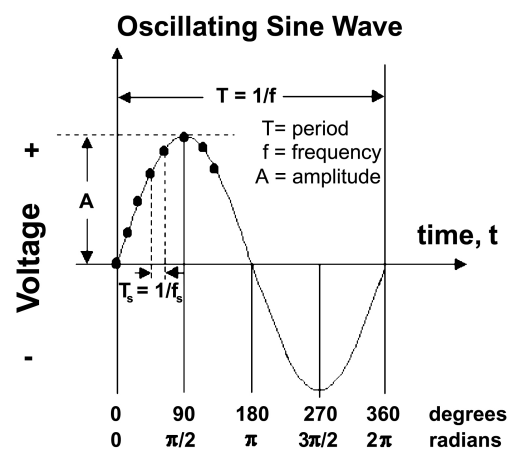 The relationship between period, frequency, and amplitude for a sine wave is illustrated in this image